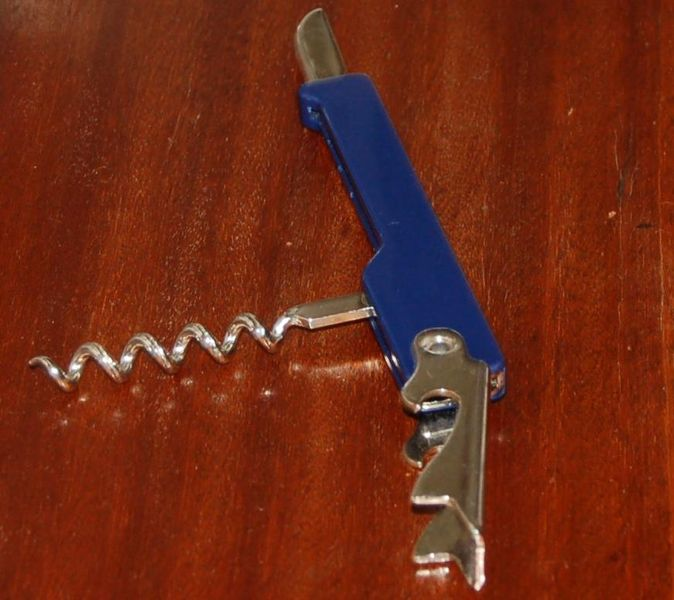 An opened Waiter's Friend bottle opener